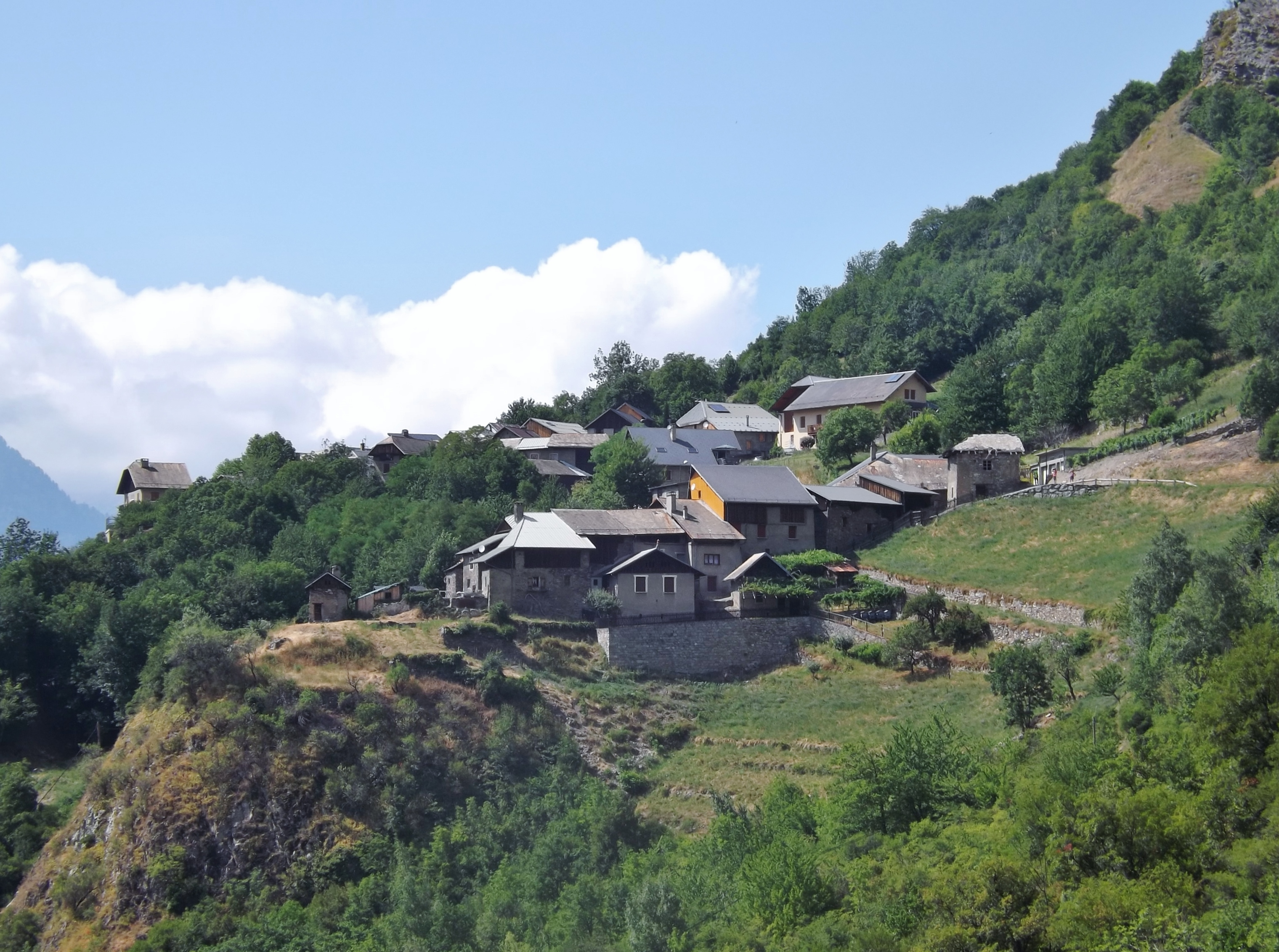 Sight, from the the road from Saint-Jean-de-Maurienne, of Le Châtel, village of the Maurienne valley in Savoie, France.